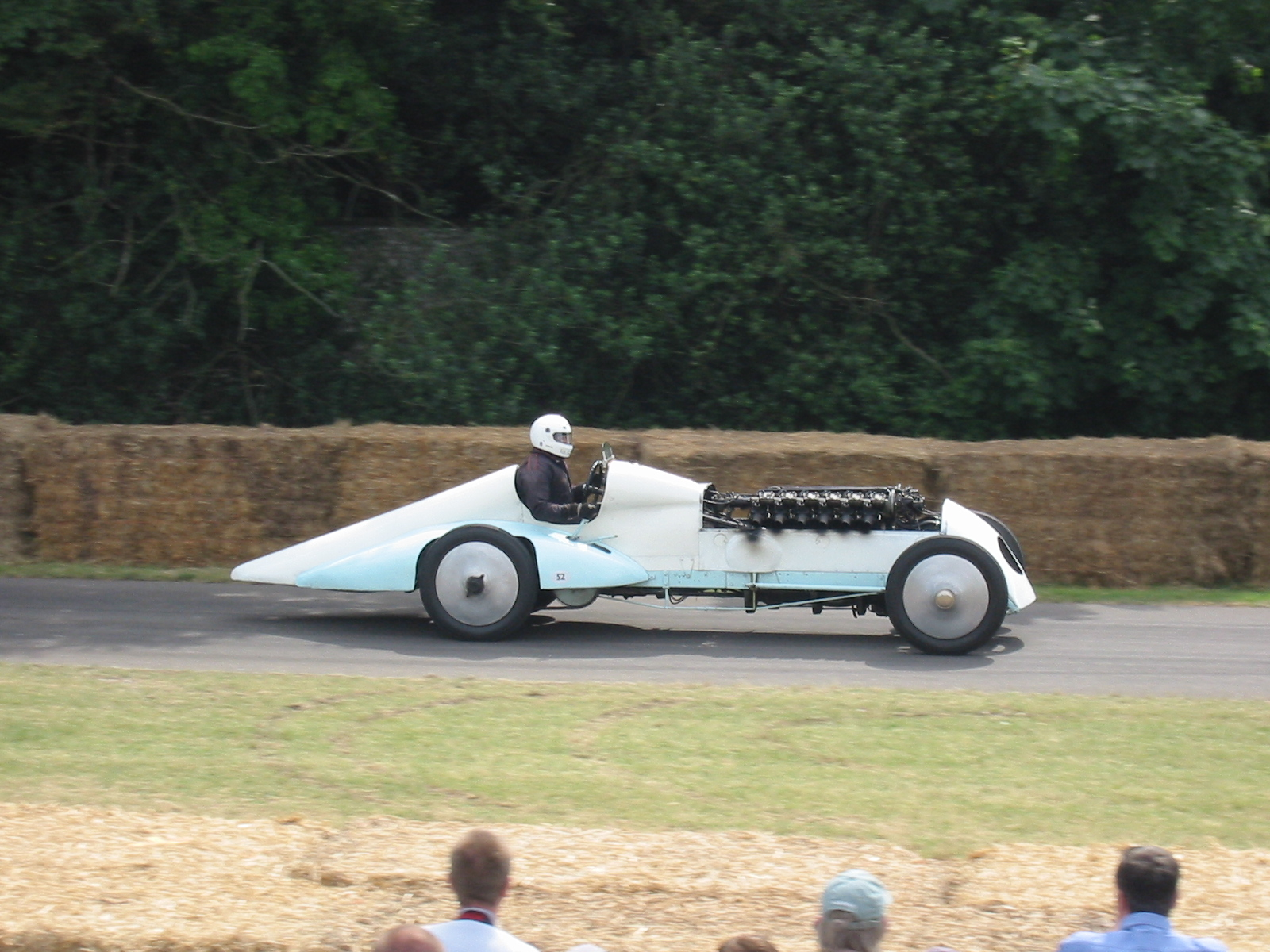 Babs, powered by a 27 litre(!) V-12 Liberty engine. J. G. Parry-Thomas achieved 171mph in this aero-engined monster on Pendine Sands, Wales, in 1926. He was killed when a rear wheel failed and the car overturned. The wreckage was then buried where it lay, and only unearthed in 1969 by the car's current owner Owen Wyn Owen.